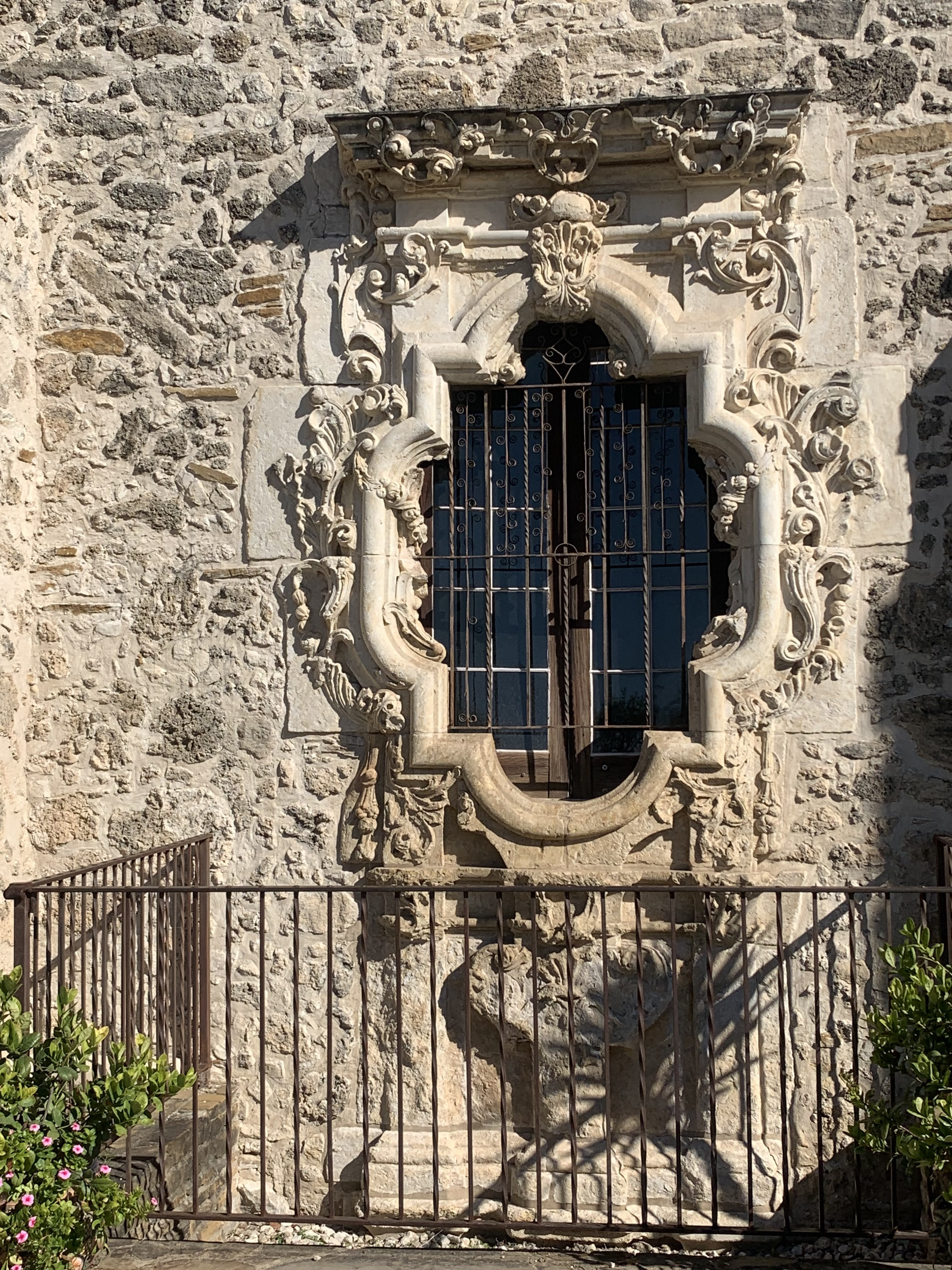 The Rose Window (La Ventana de Rosa) is an example of Baroque Architecture in America. Found inside the Mission San Jose Catholic Church in San Antonio, Texas.